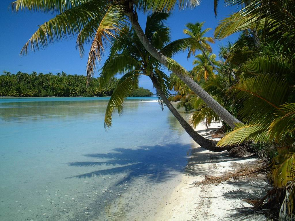 One Foot Island), a popular picnic spot and destination for all lagoon cruises operating on Aitutaki.